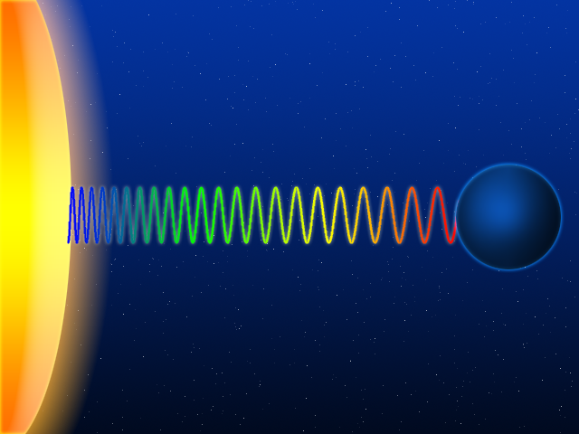 Illustration for gravitational red-shifting. Picture created using Adobe Photoshop CS2.